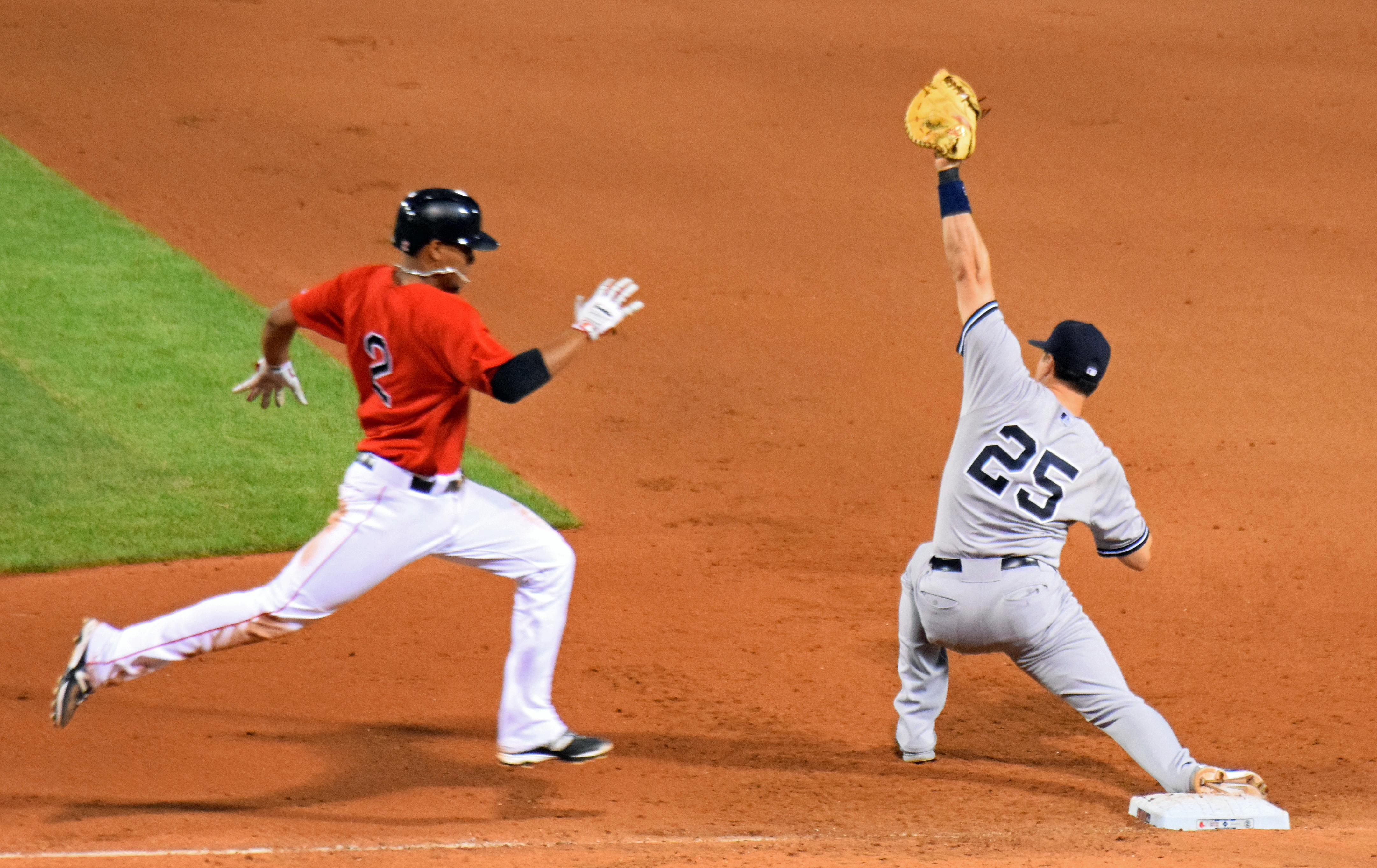 The New York Yankees record an "out" in their Aug. 1, 2014, contest against the host Boston Red Sox